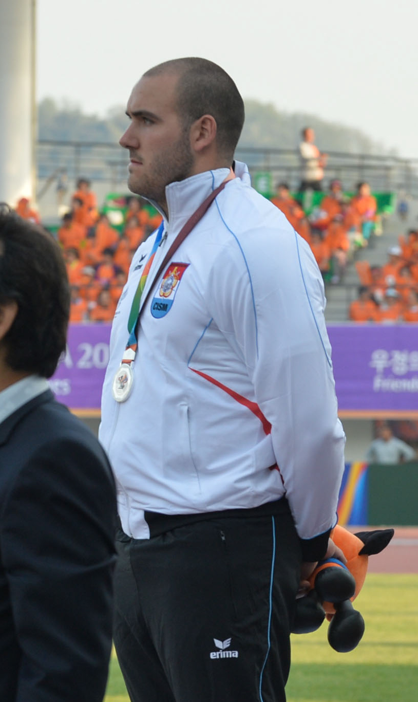 Bob Bertemes at the 2015 Military World Games. Foto: Felipe Barra